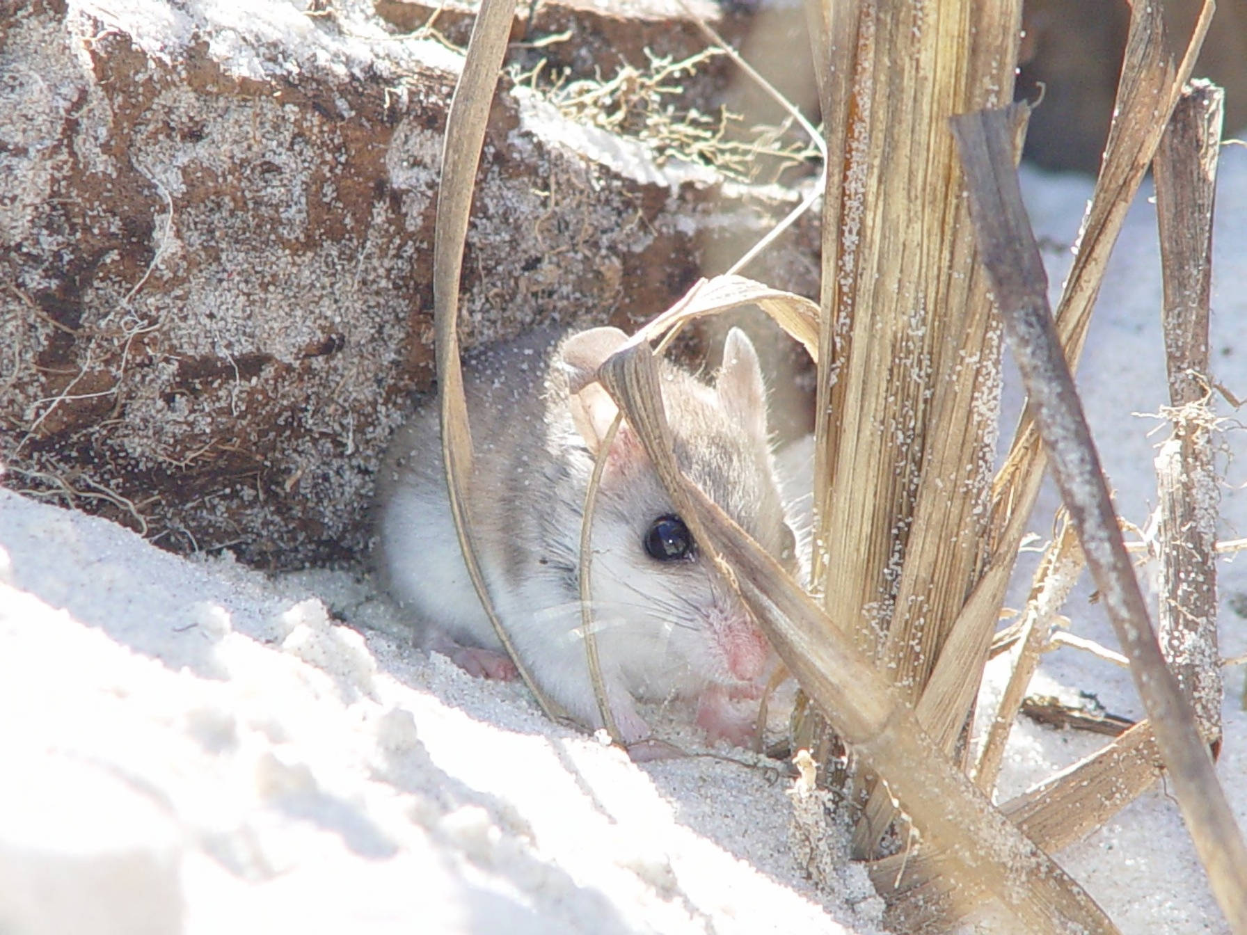 Alabama Beach Mouse (Peromyscus polionotus ammobates) in the Bon Secour National Wildlife Refuge, Alabama